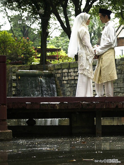 A typical malay wedding attire.